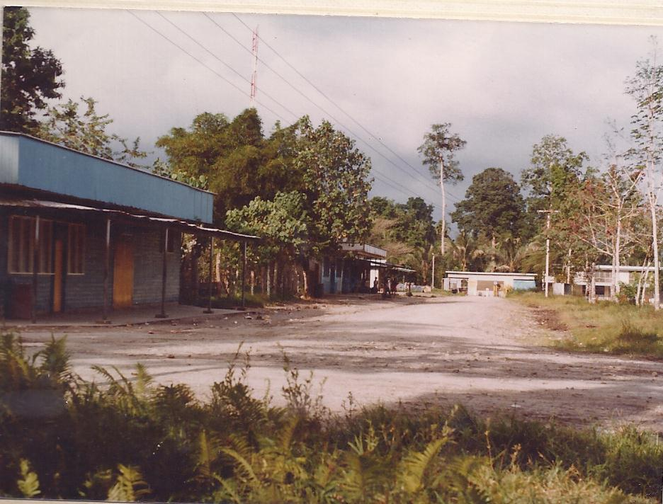 Shops on Main Street in Buin, Bougainville Island. Sunday 1978